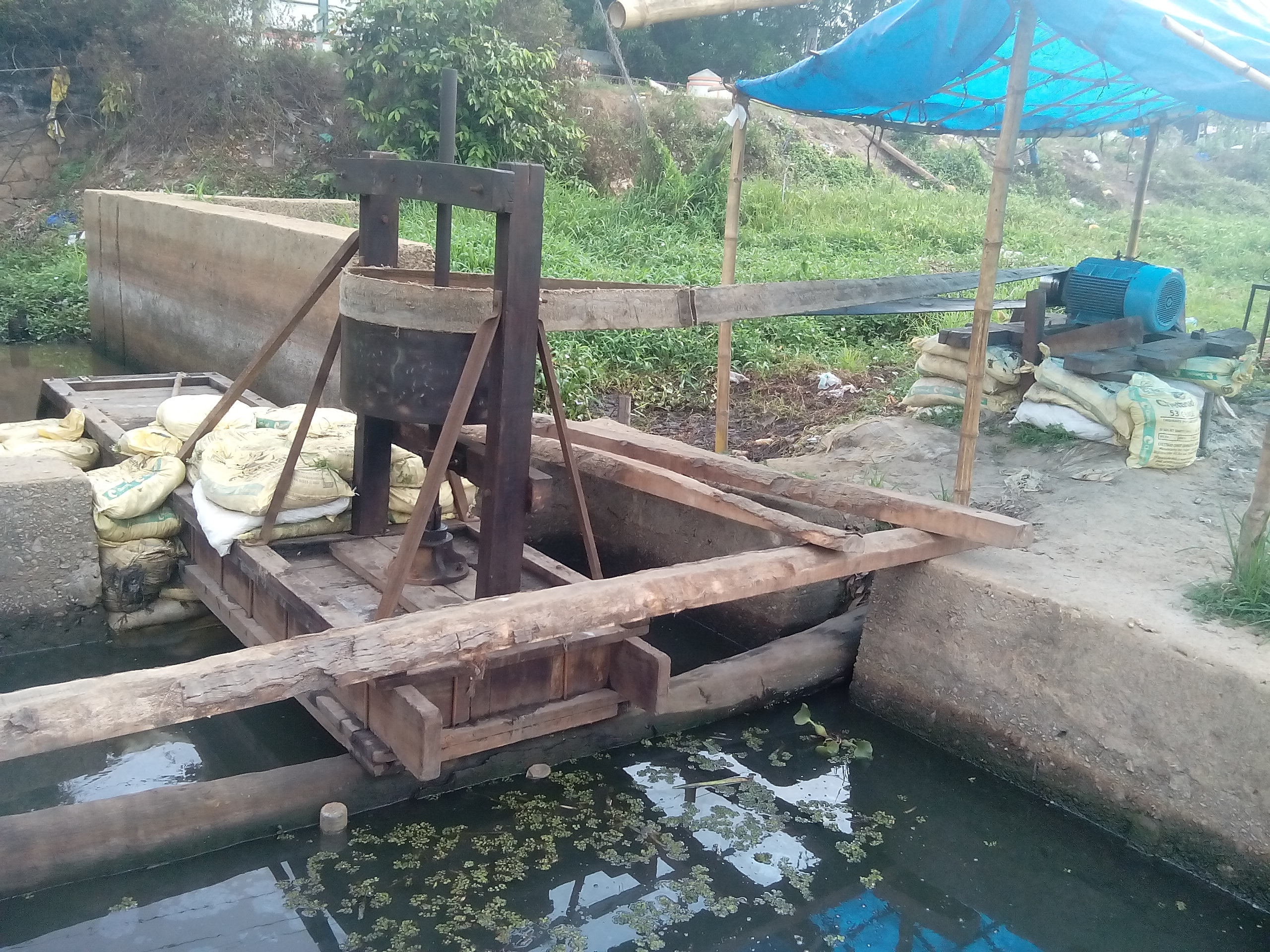 "peeti and para" the device for dewatering the lakes in the kuttanadu region of kerala, india. photo taken from chettikulangara puncha of mavelikkara